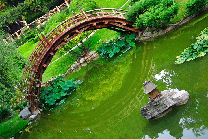 Japanese garden, bridge